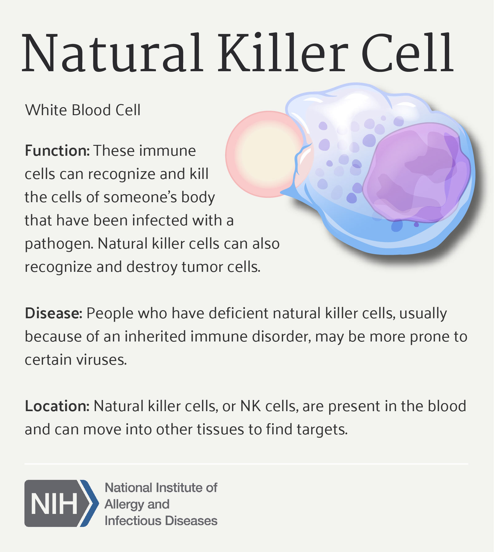 Natural killer cell function, relationship to disease, and location in the human body. Credit: NIAID